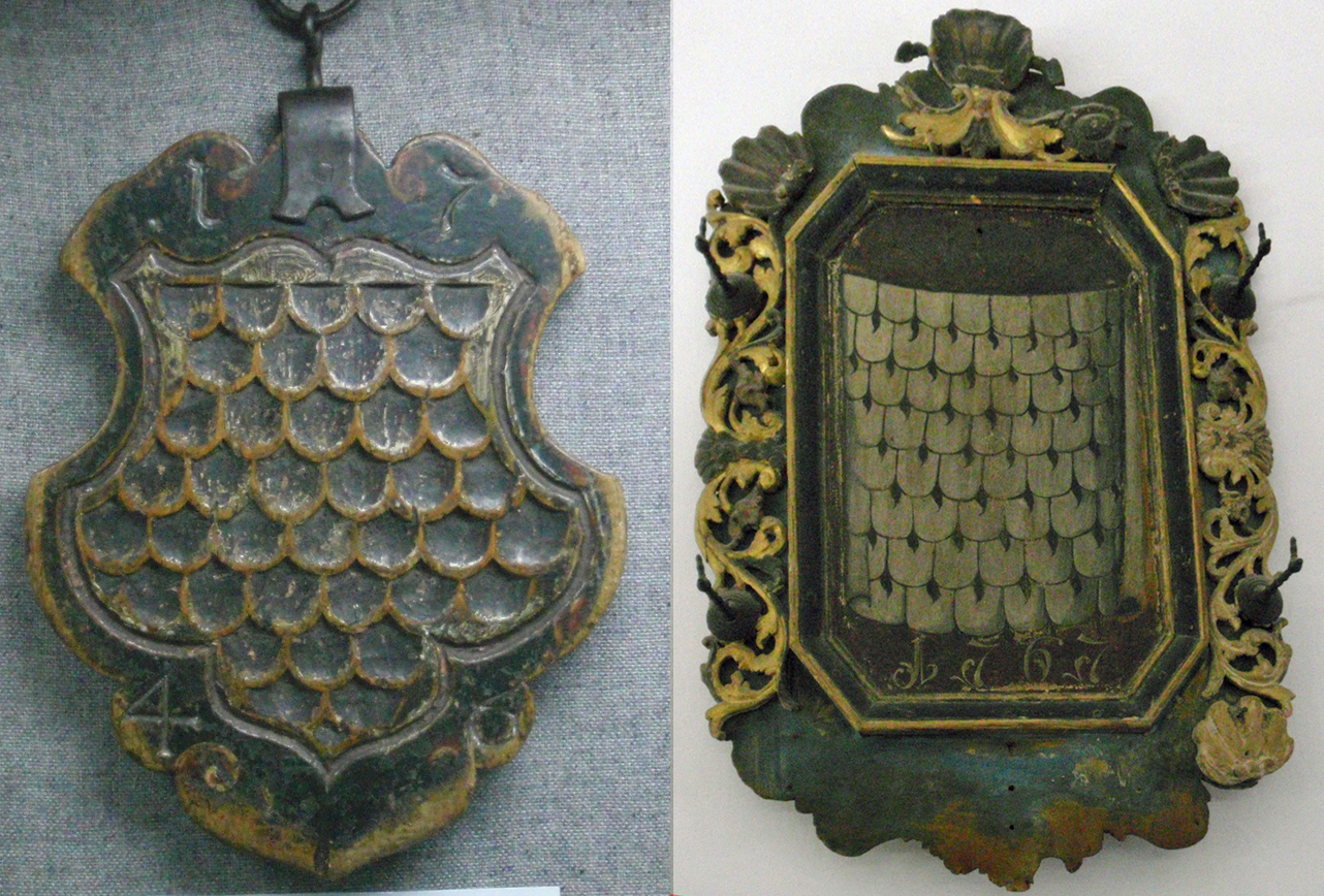 Two Furriers coat of arms from Sighişoara, Transylvania, Romania, 18 th century